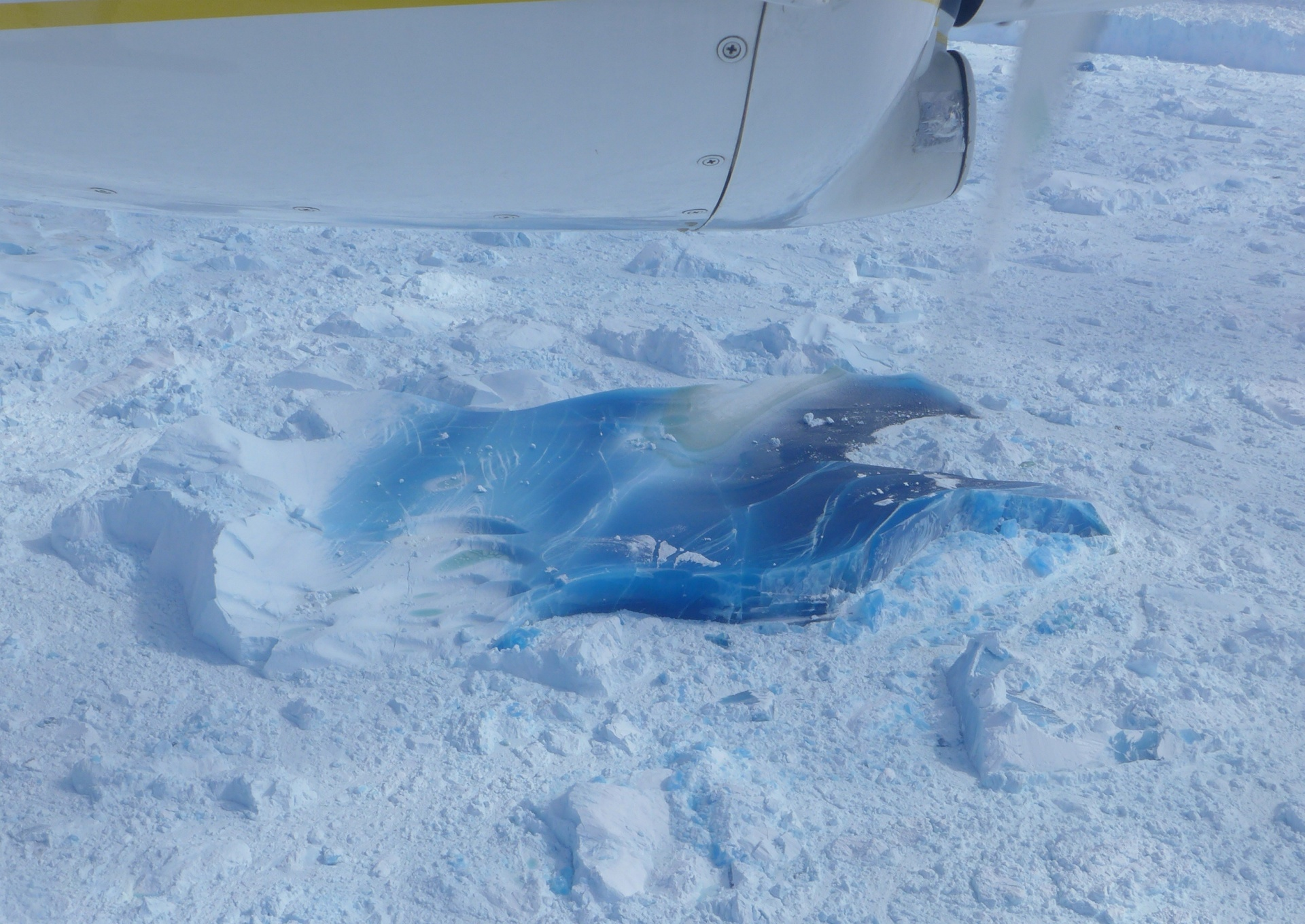 Blue iceberg spotted from air on the 10th of June 2015 in the Ilulissat icefjord, Greenland. The iceberg appeared to be approximately 50 meters long.